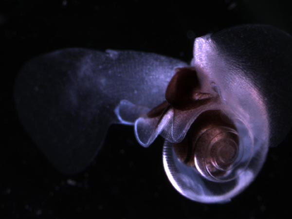 A pelagic pteropod collected during one of the net tows. Species probably Limacina helicina.